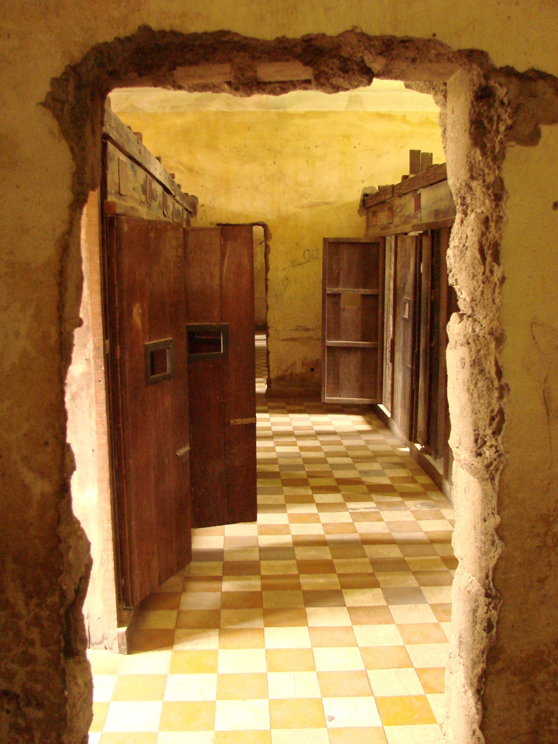 Tuol Sleng - S21 Genocide Museum, Phnom Penh, Cambodia. In the upper-level cellblock, where prisoners were kept in narrow wood-partitioned cubicles.